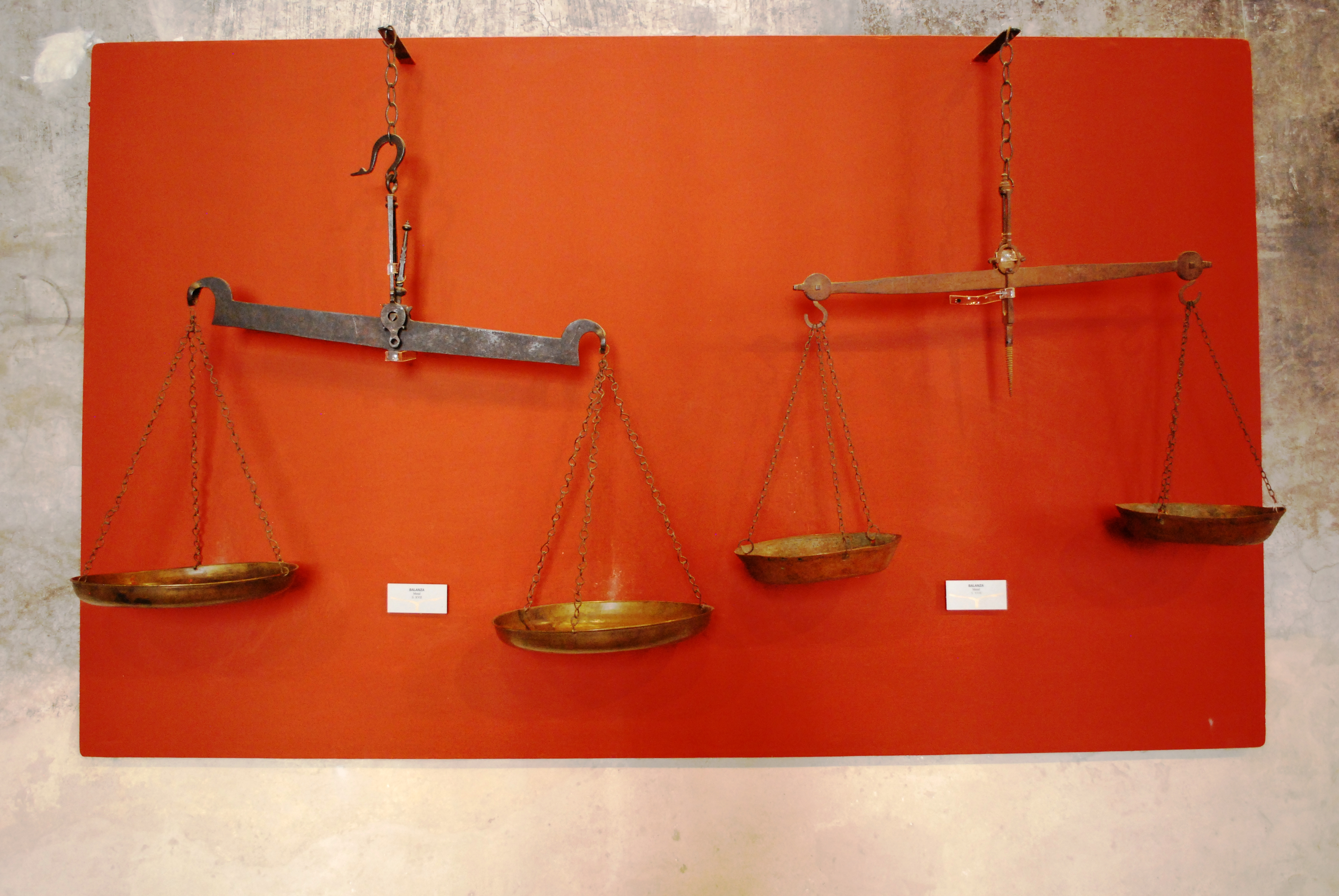 Scales on display at the Viceregal Museum of Zinacantepec, Mexico State